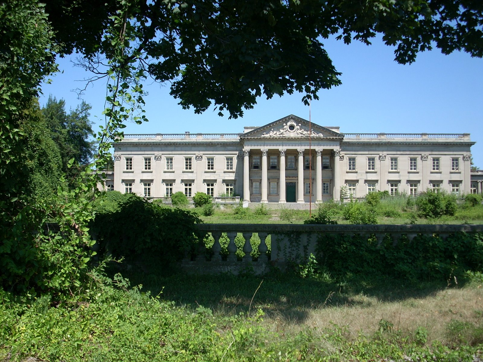 former Widener Estate later the site of Faith Theological Seminary, now abandoned